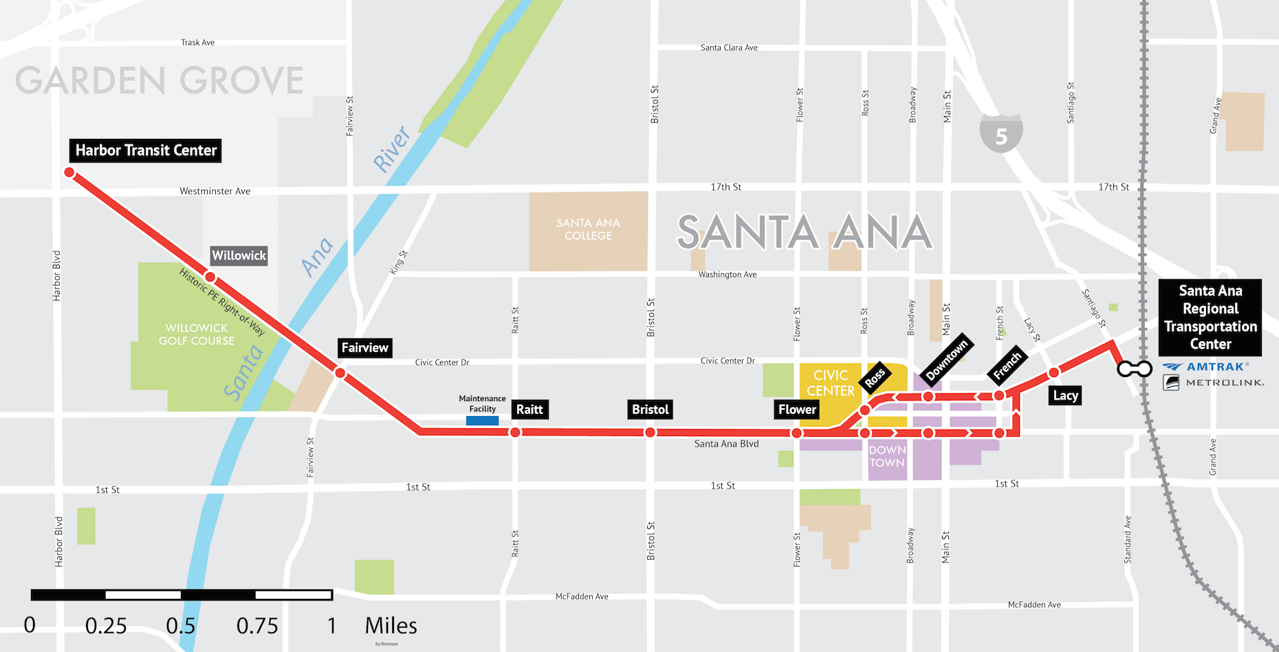 Map of the currently under development OC Streetcar project. Based on the map provided by OCTA.